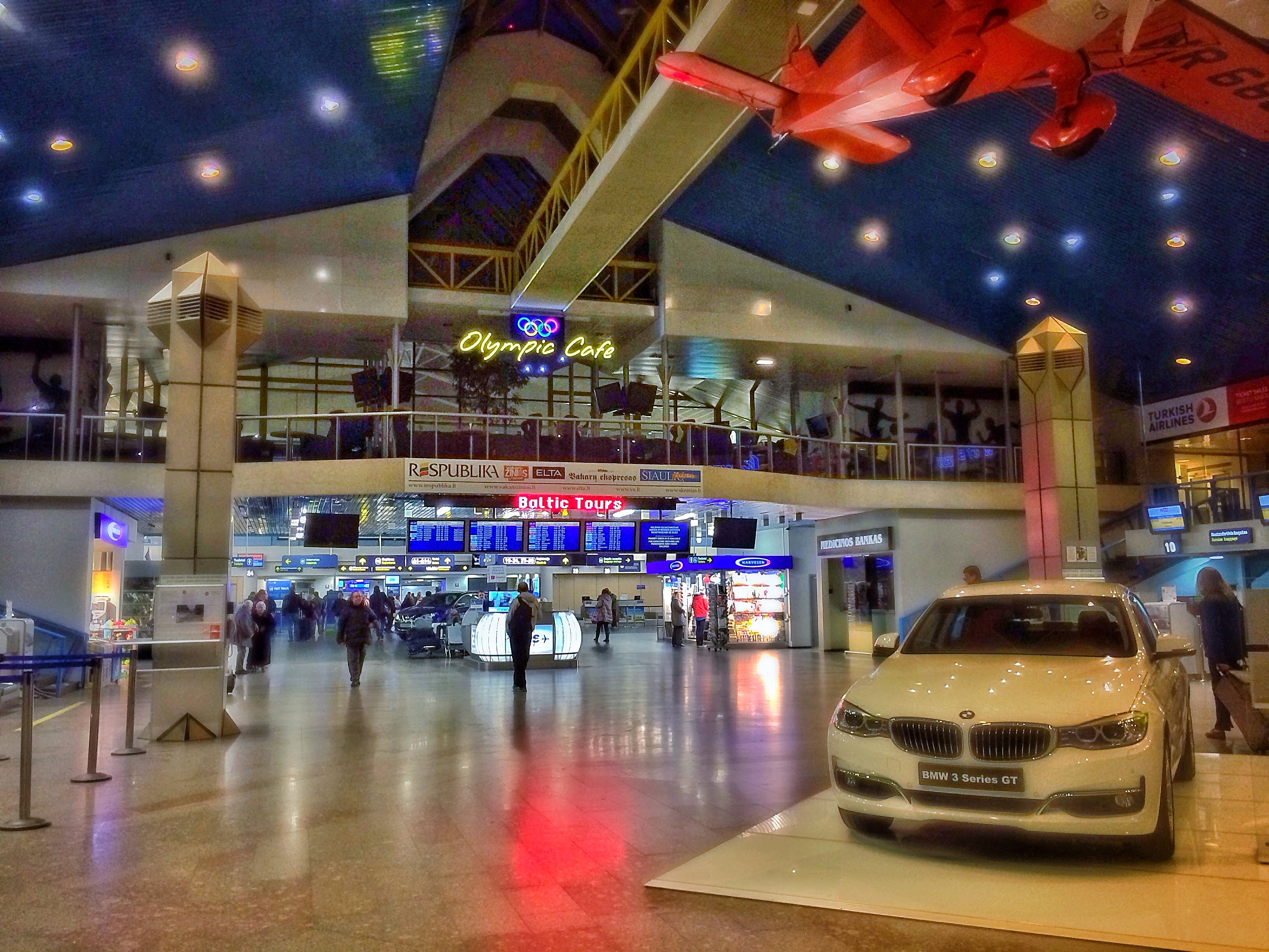 Vilnius International Airport Terminal